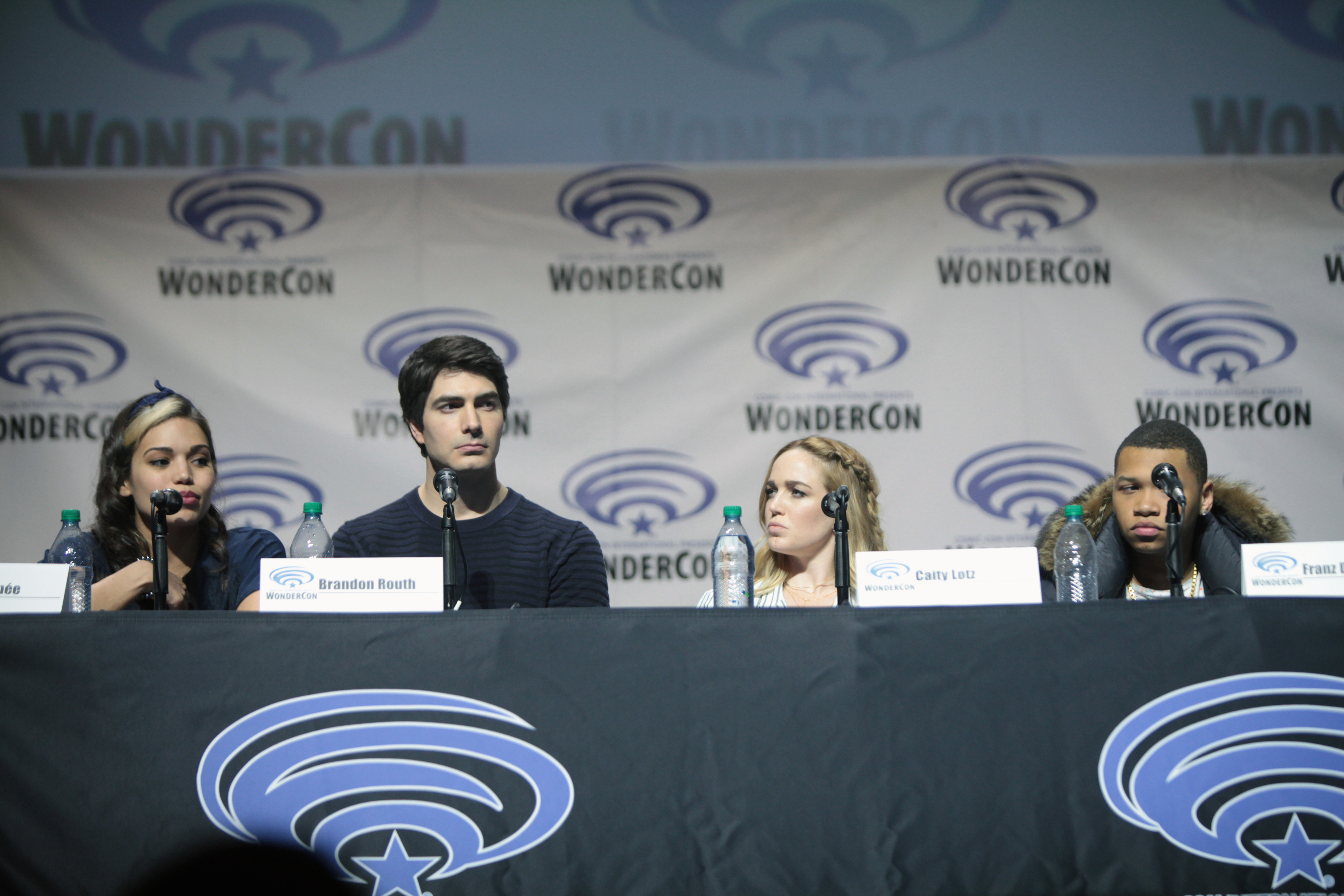 Ciara Renée, Brandon Routh, Caity Lotz and Franz Drameh speaking at the 2016 WonderCon, for "Legends of Tomorrow", at the Los Angeles Convention Center in Los Angeles, California.